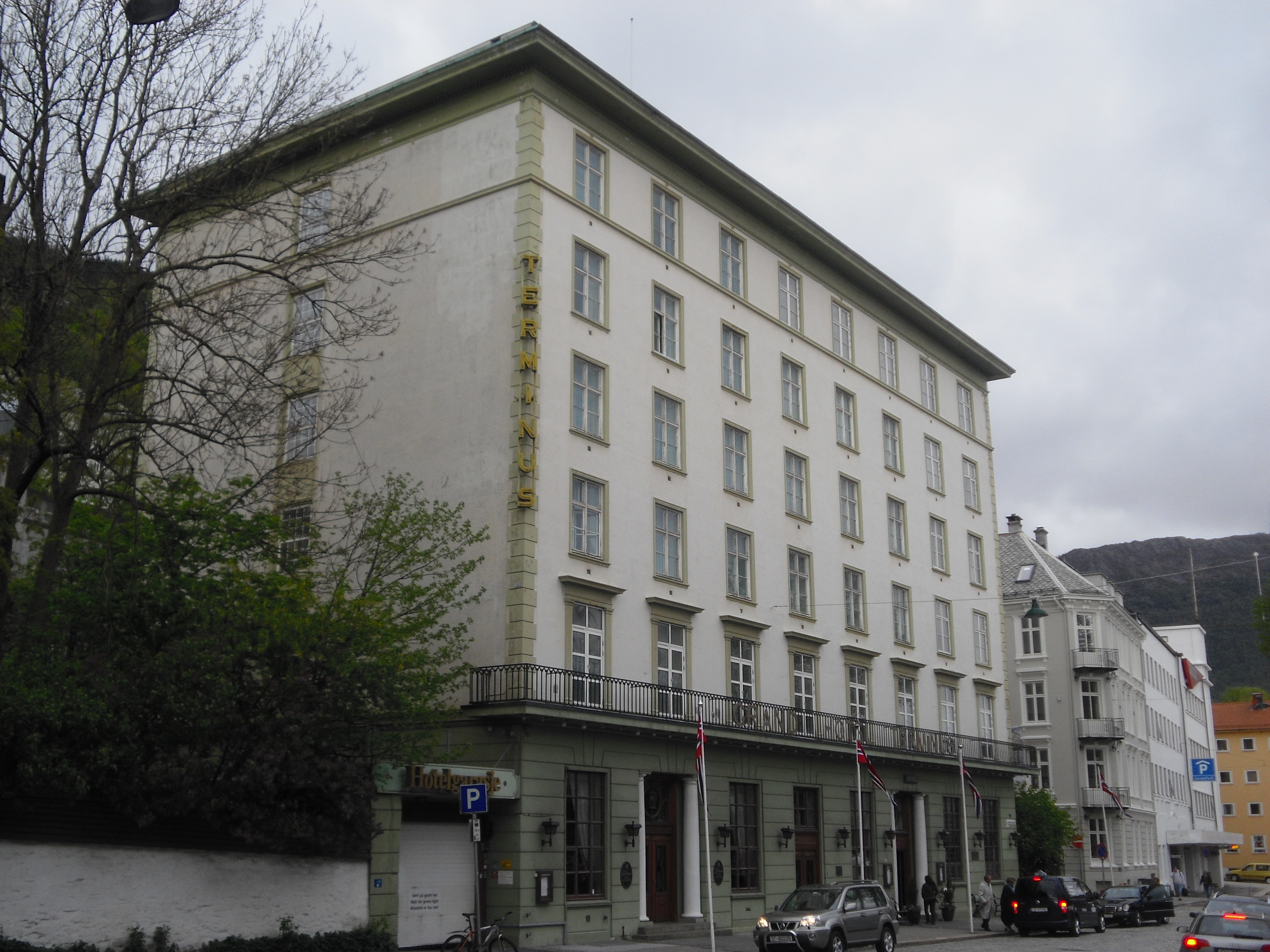 Grand Hotel Terminus in Bergen, Norway, from 1928. Architects Fredrik Arnesen and Arthur Darre Kaarbø.